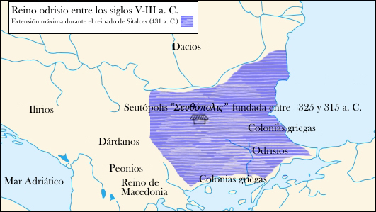 Map of the Odrysian kingdom Own work,data from Cambridge ancient history D. M. Lewis, John Boardman, Simon Hornblower, Cambridge University Press, 1994, ISBN 0521233488, p. 444 The Oxford Classical Dictionary by Simon Hornblower and Antony Spawforth,ISBN-10: 0198606419, page 1514,"the kingdom of the Odrysae the leading tribe of Thrace extented ver present-day Bulgaria, Turkish Thrace (east of the Hebrus) and Greece between the Hebrus and Strymon except for the coastal strip with its Greek cities" The Odrysian Kingdom of Thrace: Orpheus Unmasked (Oxford Monographs on Classical Archaeology) by Z. H. Archibald,1998,ISBN-10-0198150474 The Thracians 700 BC-AD 46 (Men-at-Arms) by Christopher Webber and Angus McBride,2001,ISBN-10:1841763292 Blank map small part of South Europe and North Africa.svg